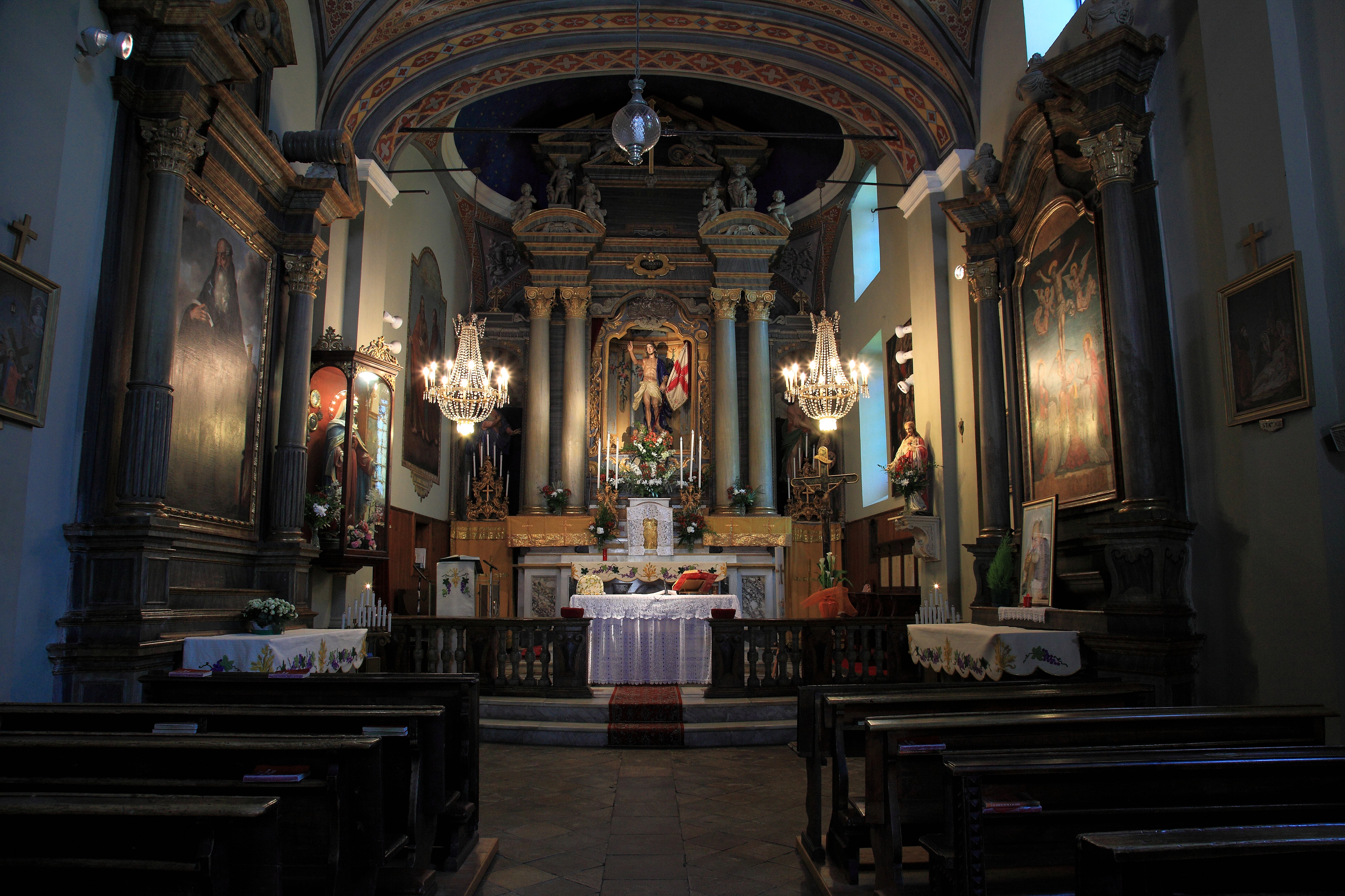 Internal view of the Santa Croce Church in Lanzo Torinese (TO) - ITALY